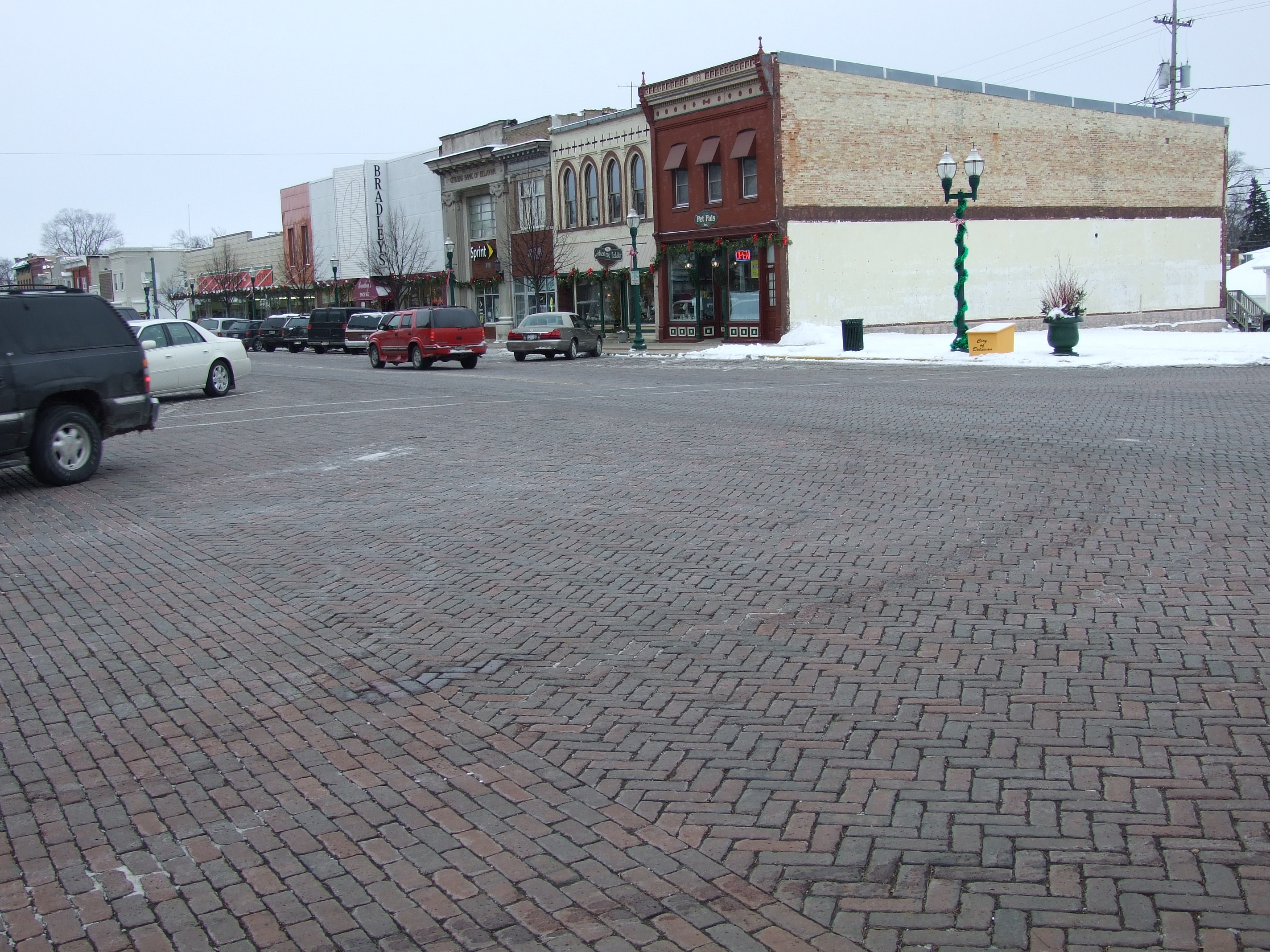 Delavan's historic brick street, Walworth Avenue (Wisconsin state route 11); corner of Walworth Ave. and N 2nd street, looking southeast.